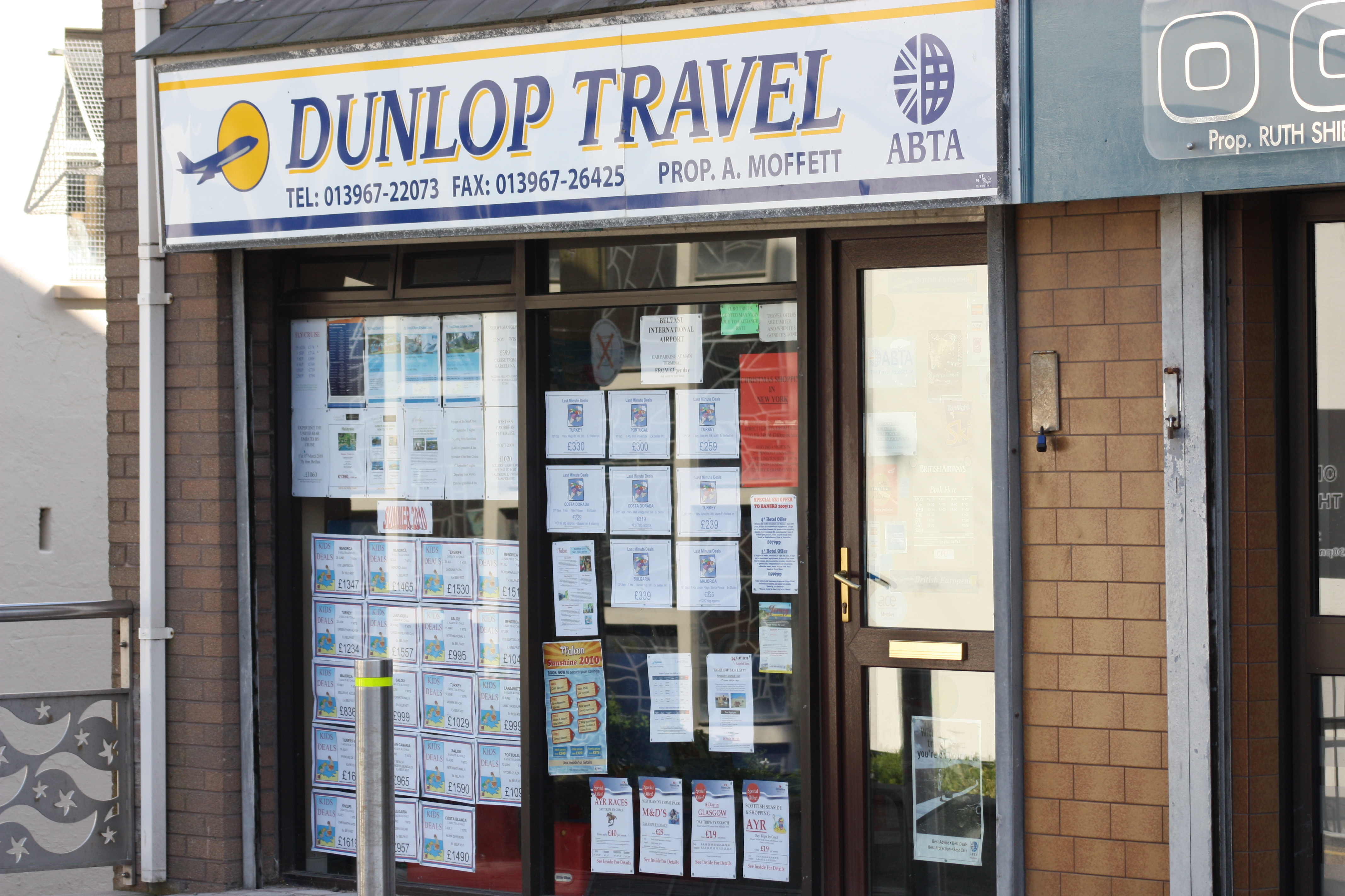 Dunlop Travel, Savoy Lane, Newcastle, County Down, Northern Ireland, August 2009